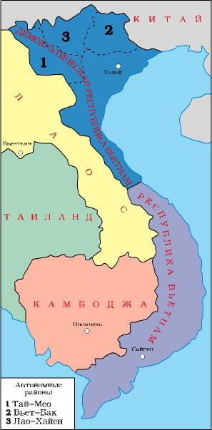 Map of autonomous zones of Vietnam (late 1950-s) in Russian